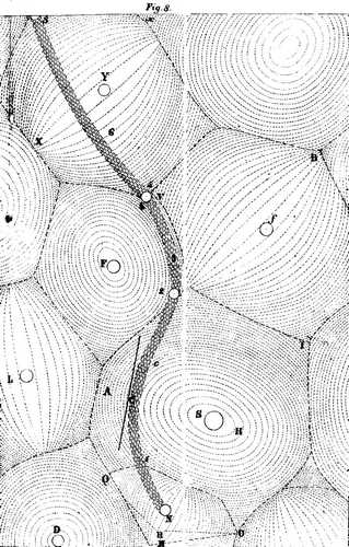 Aether vortex around suns and planets